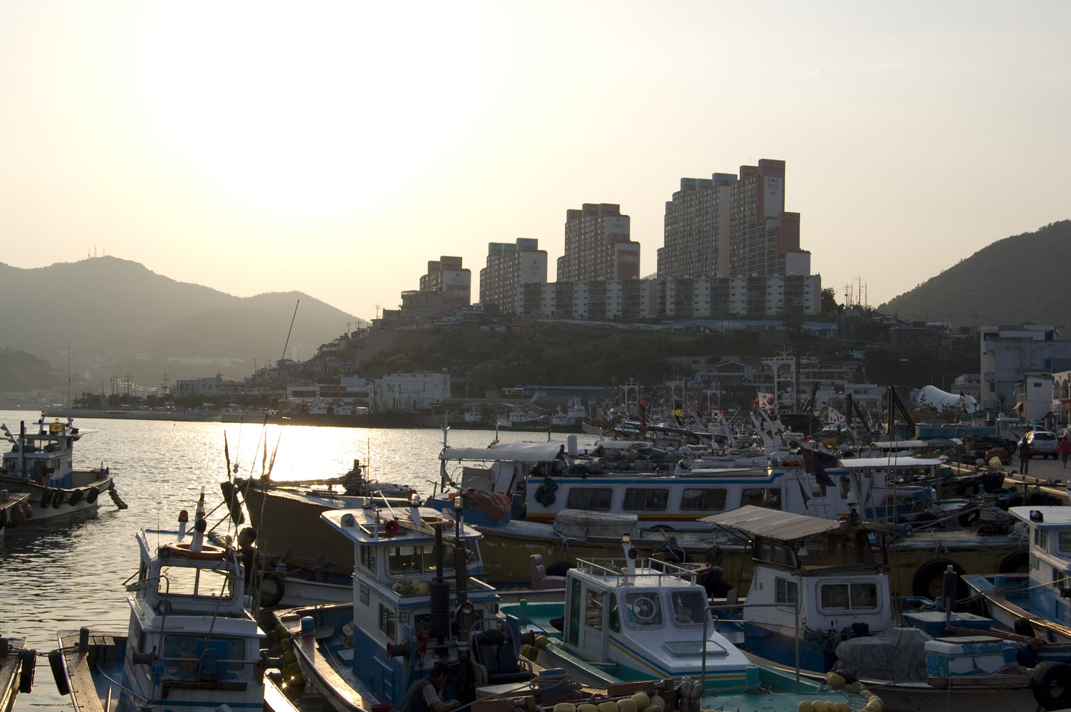 sunset over the harbor of Yeosu